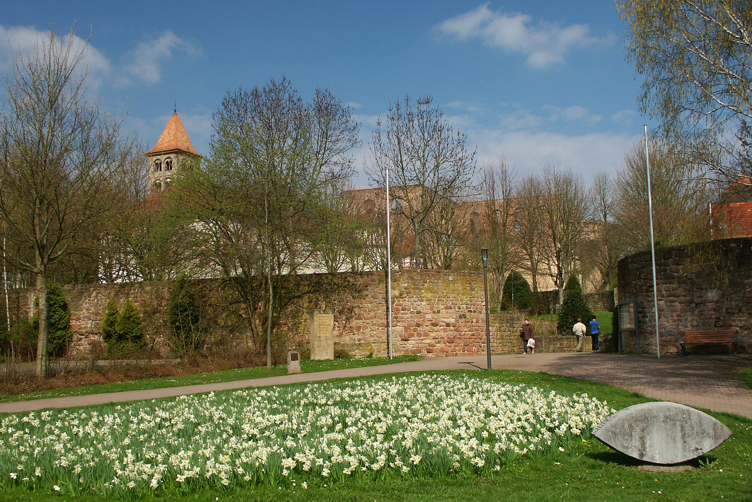 foundation walls of the early medieval south gate to Hersfeld monastery